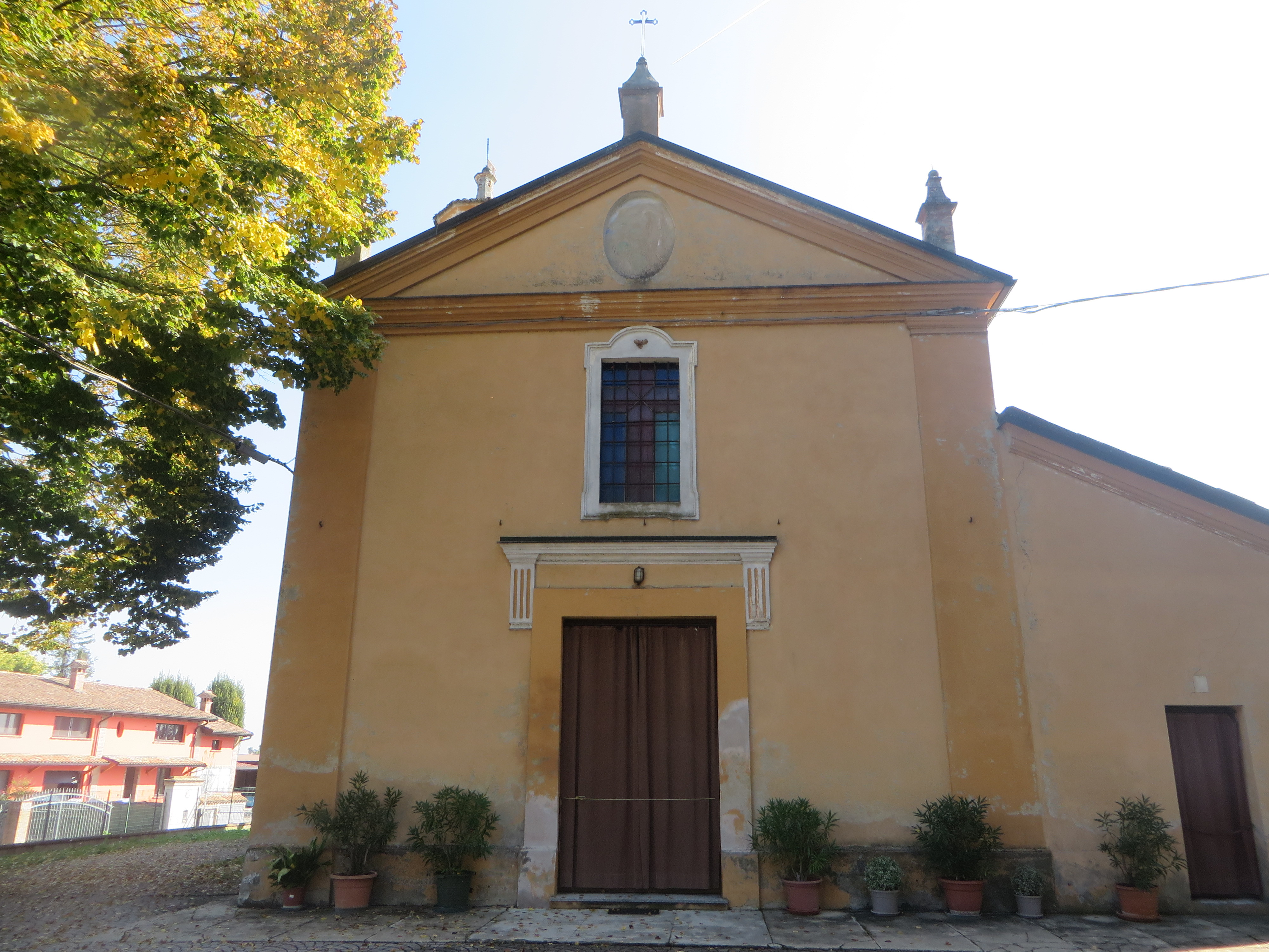 San Secondo Parmense Saint Peter church1